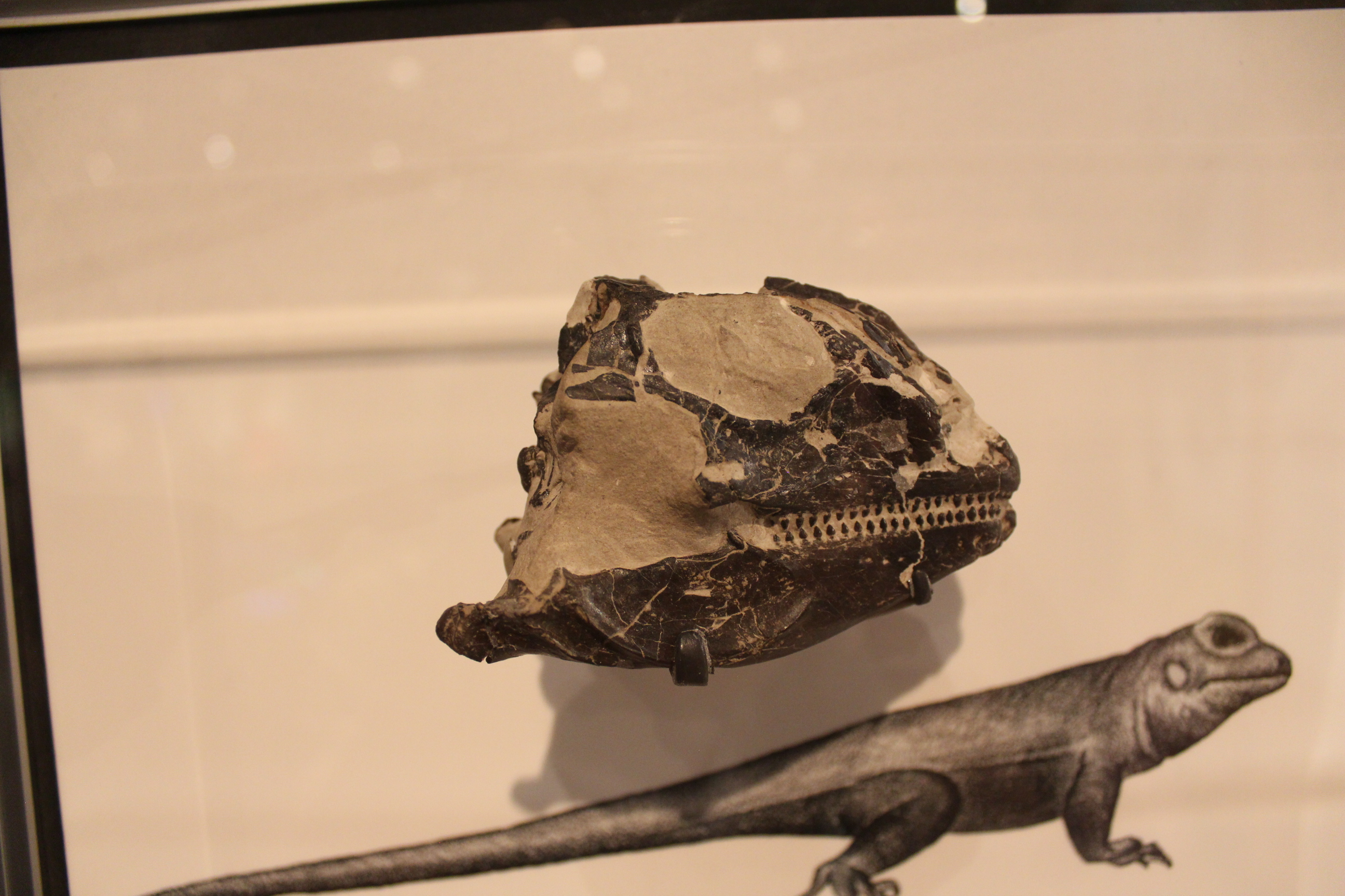 A Polyglyphanodon skull on display at the Smithsonian's National Museum of Natural History's exhibit "The Last American Dinosaurs".